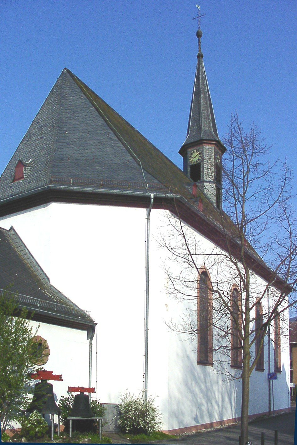 Back of church St. Alban Kronberg im Taunus / Schönberg ( Hessia, Germany)